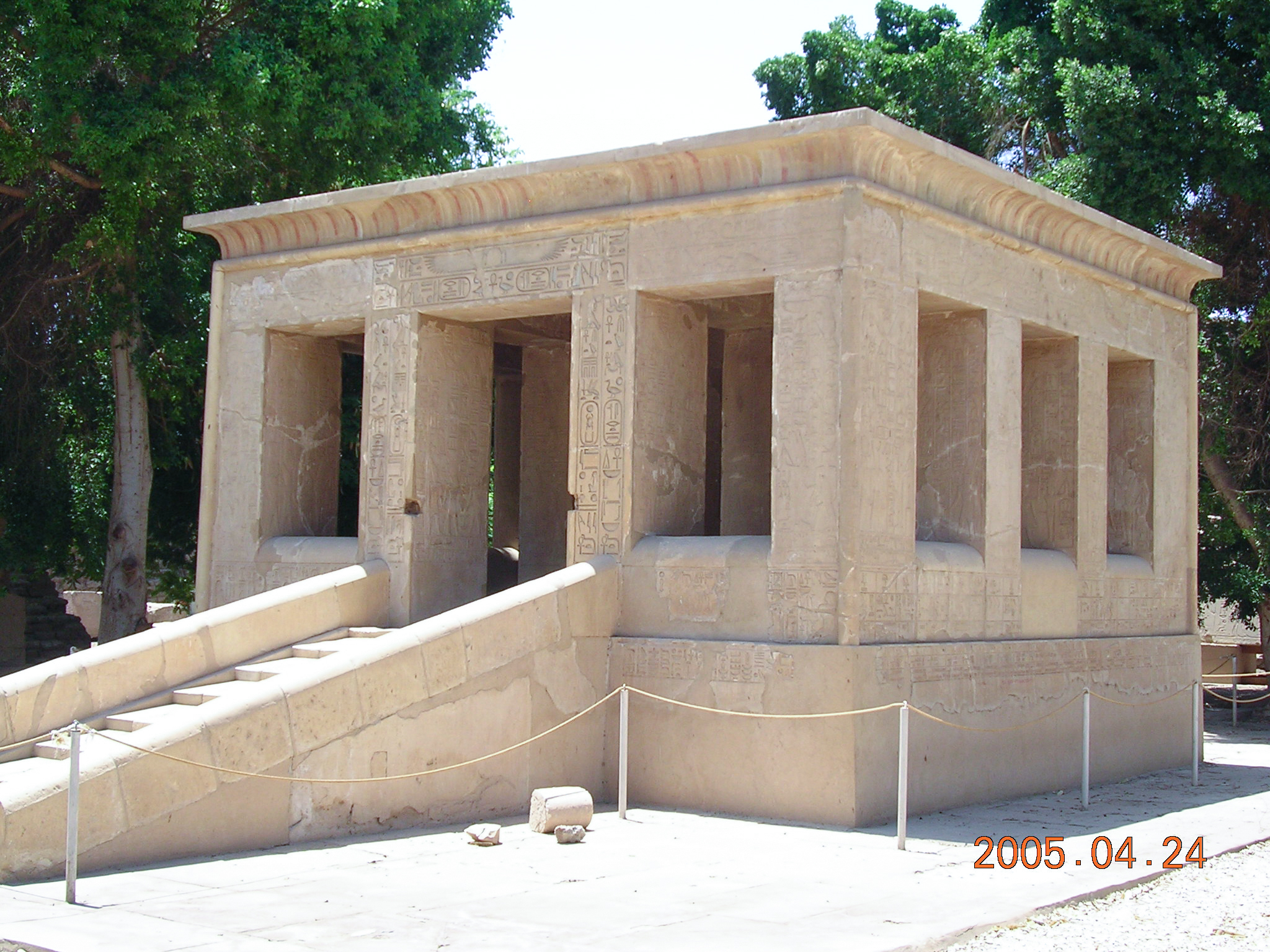 The chapel of Senusret I (Chapelle blance)